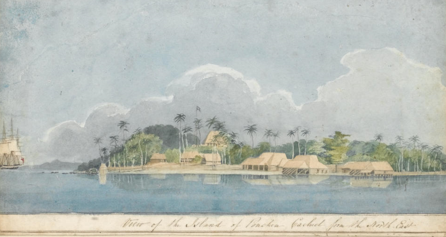 Watercolour from c. 1785 showing the British settlement of Tapanuli on the small island of Punchong Cacheel inside the vast Bay of Tapanuli (today, also called Sibolga Bay). Tapanuli (then spelled Tappanooly) was the northermost of the string of settlements that were part of British Bencoolen. The painter is Elisha Trapaud, soldier, surveyor, draughtsman and amateur actor who joined East India Company 1776 and took part in an expedition to survey Sumatra between 1783 and 1785. In 1788 he published a book of 20 uncoloured aquatints, including another view of Tapanuli. [Tappanooly] is on a small island, called Punchong cacheel, in the famous bay of Tappanooly, which is not surpassed, for natural advantages, in many parts of the world. Navigators say that all the navies of Europe might ride there with perfect security, in every weather. (William Marsden, The History of Sumatra, 1783).